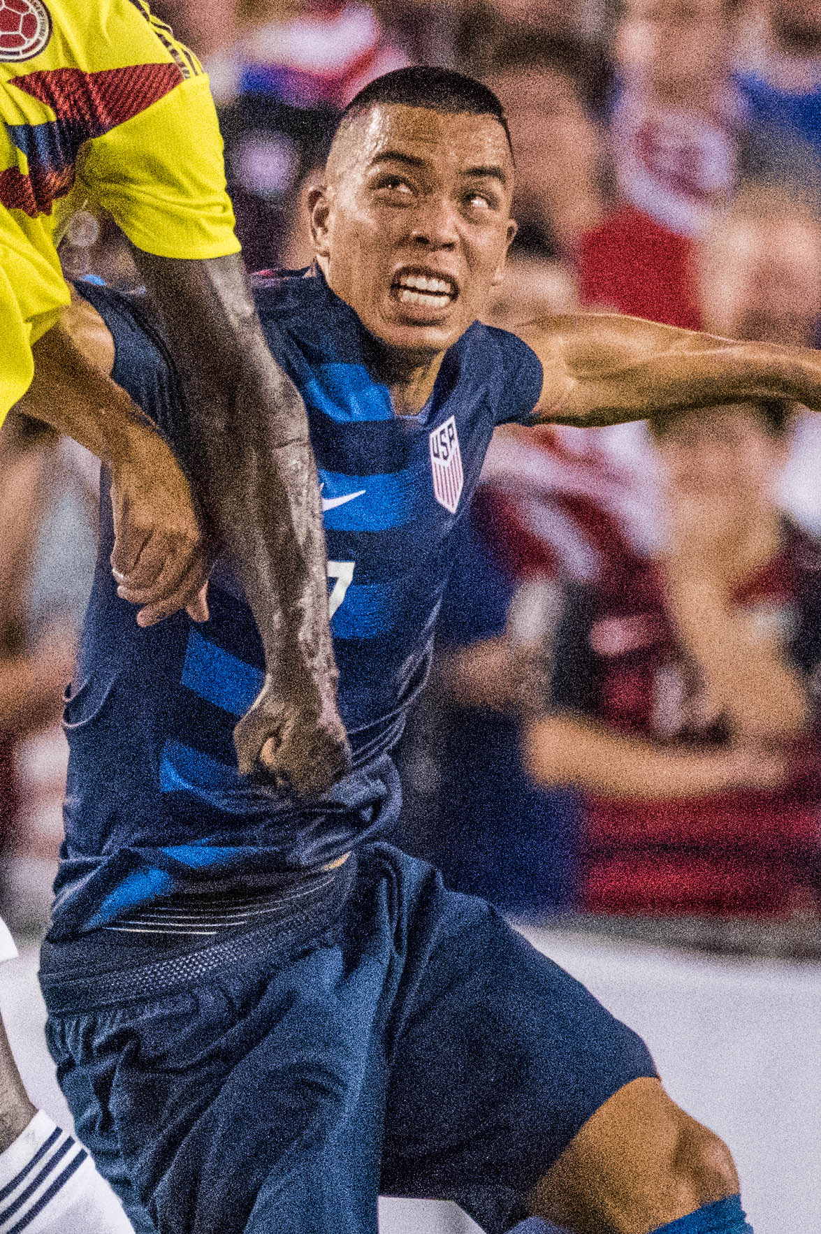 Matt Garrity Location : Raymond James Stadium, Tampa FL My contact : Instagram : djdouken Website